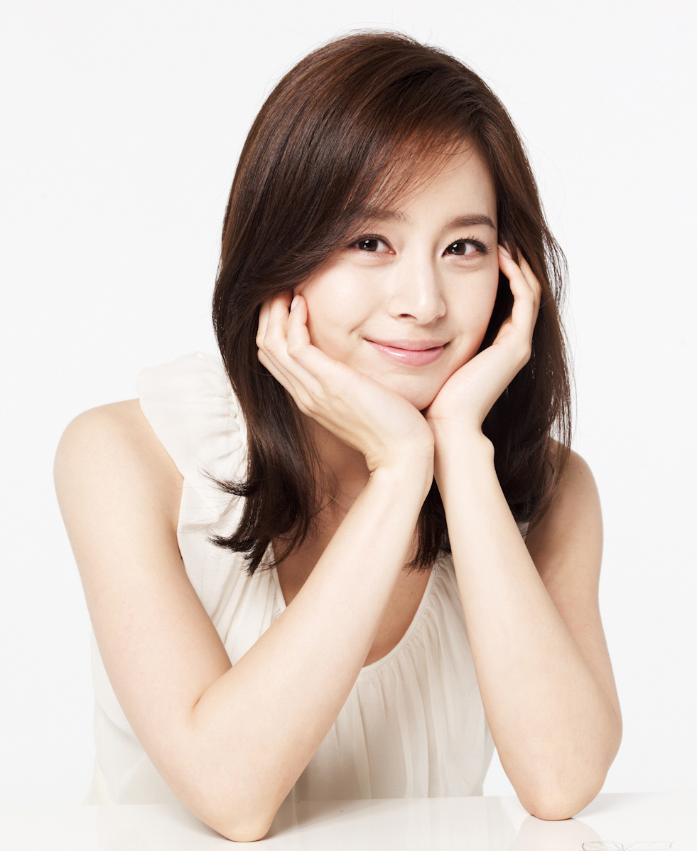 Kim Tae-hee.